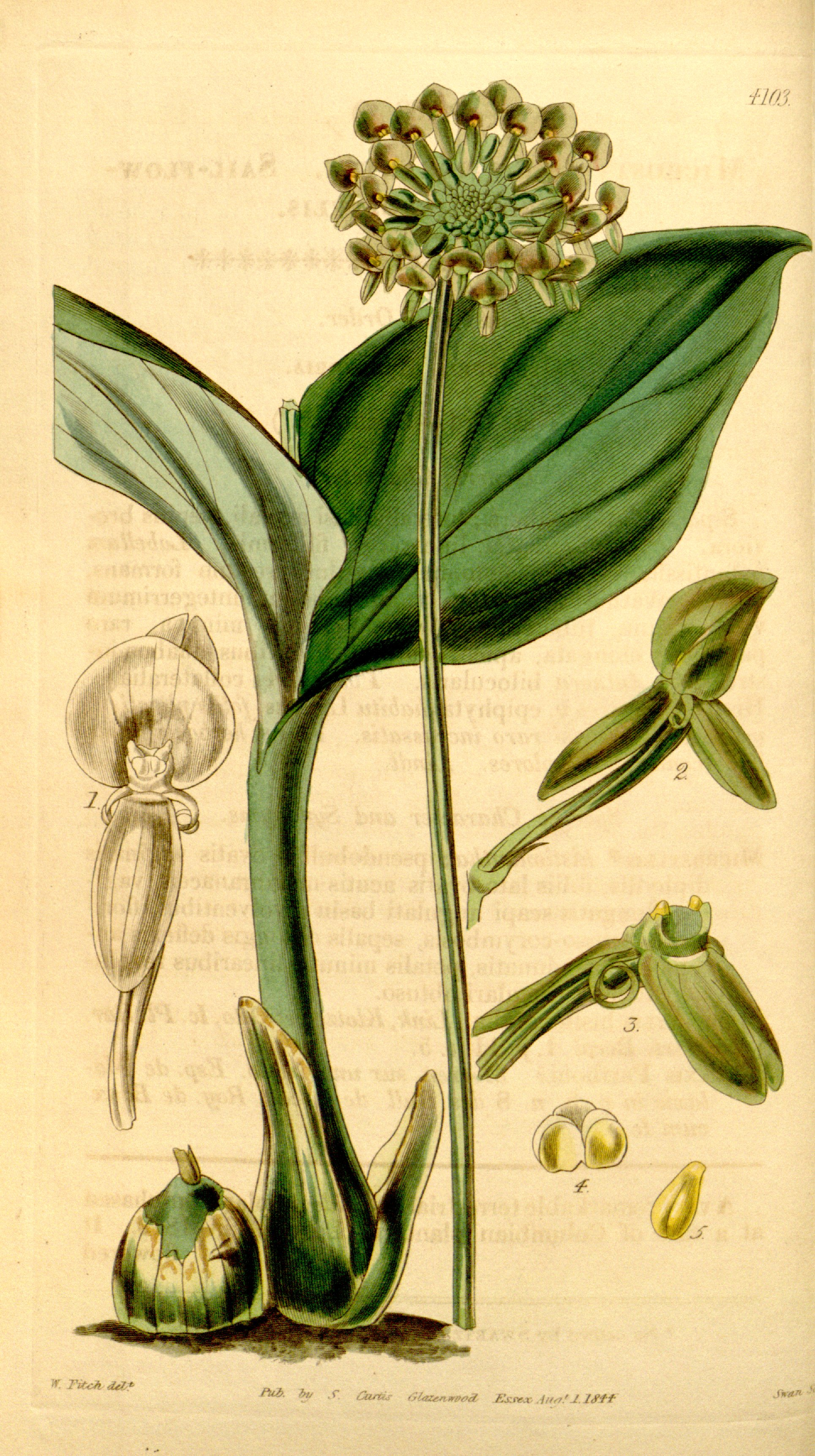 Illustration of Malaxis histionantha (as syn. Microstylis histionantha)